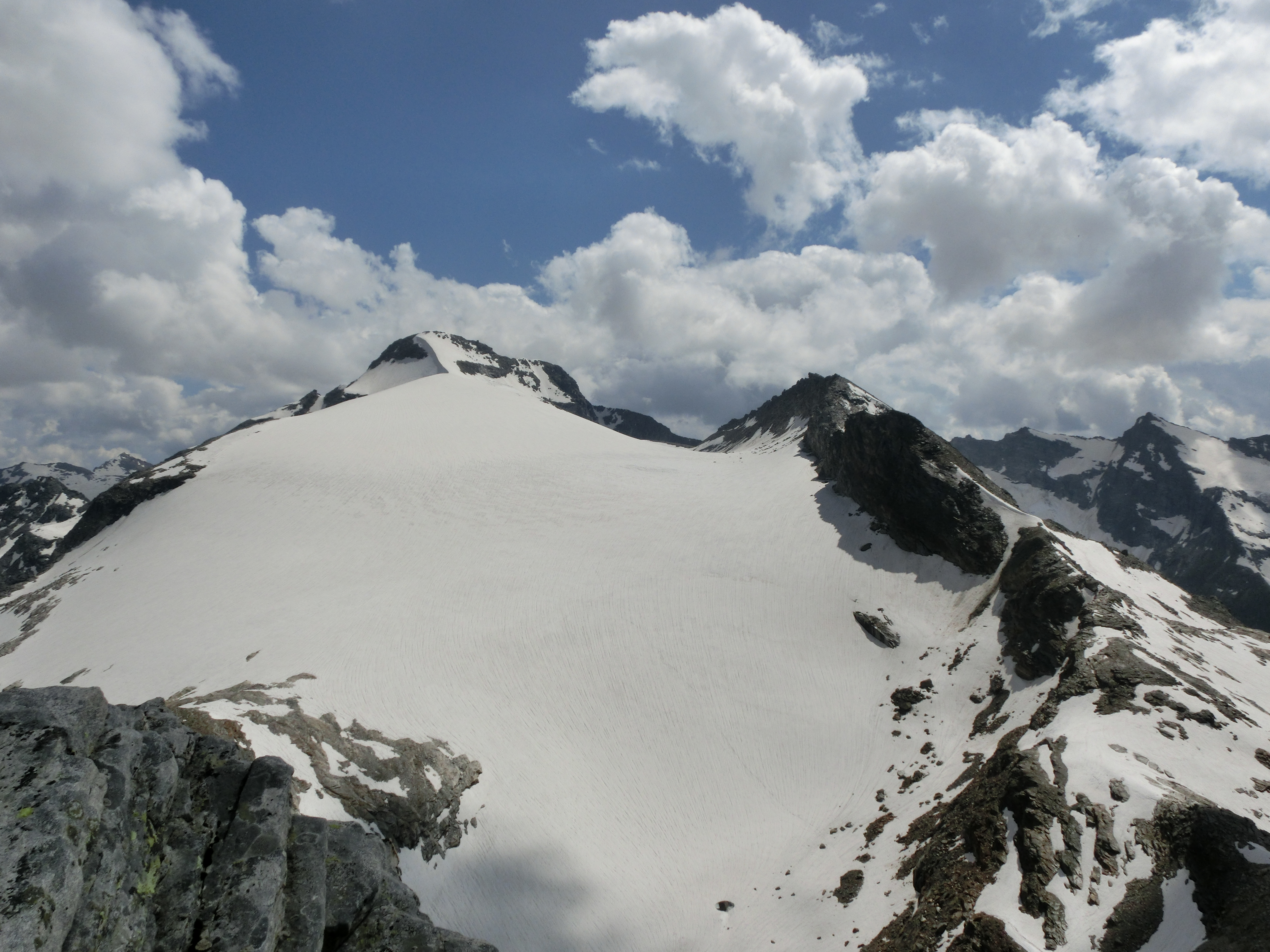 Güferhorn and Läntahorn as seen from Furggeltihorn, Vals, Grison, Switzerland Rumantsch: Güferhorn e Läntahorn, piglia se digl Furggeltihorn, Val, Grischun, Svizra